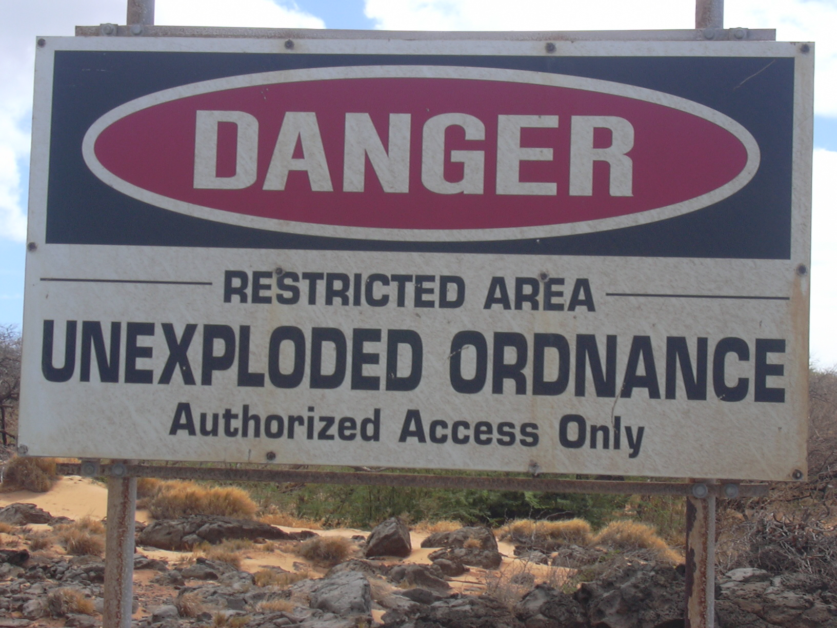 Cenchrus ciliaris (UXO sign). Location: Kahoolawe, Kaukaukapapa